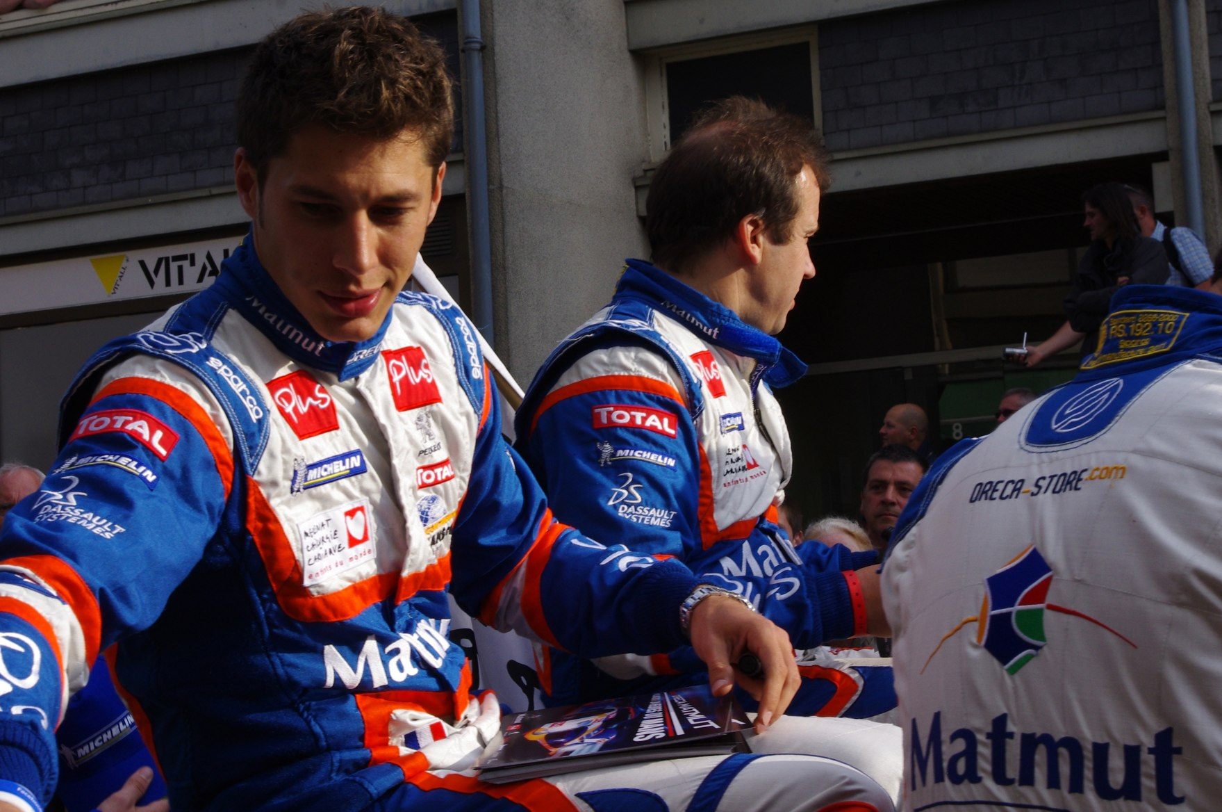 Loïc Duval and Olivier Panis at the Le Mans 24 Hours 2011 Drivers' Parade